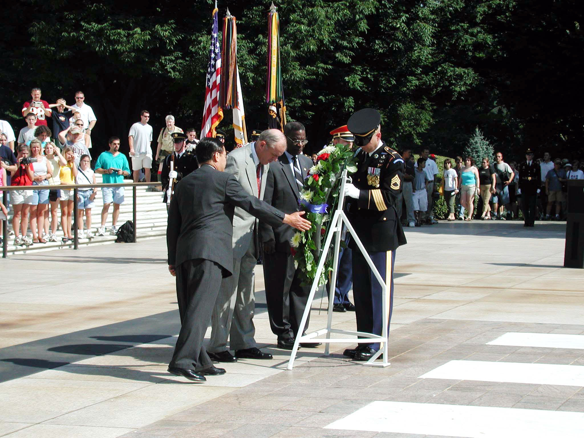 Korean Ambassador Yang Sung Chul (left), Secretary of the Army Thomas White (center), and retired Army Lt. Gen. and Korean War veteran Julius Becton (2nd from right) lay a wreath at the Tomb of the Unknowns at Arlington National Cemetery on July 23, 2001. The wreath laying is part of a Department of Defense commemoration to honor all African-Americans who served in the Korean War.